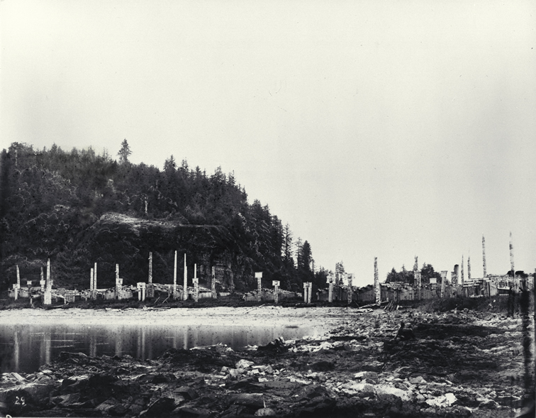 Skedans, a village located at the head of Cumshewa Inlet in the Haida Gwaii (formerly Queen Charlotte Islands) of the North Coast of British Columbia, Canada.